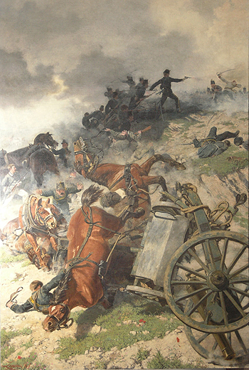 Episode of battle of Custoza (1866)